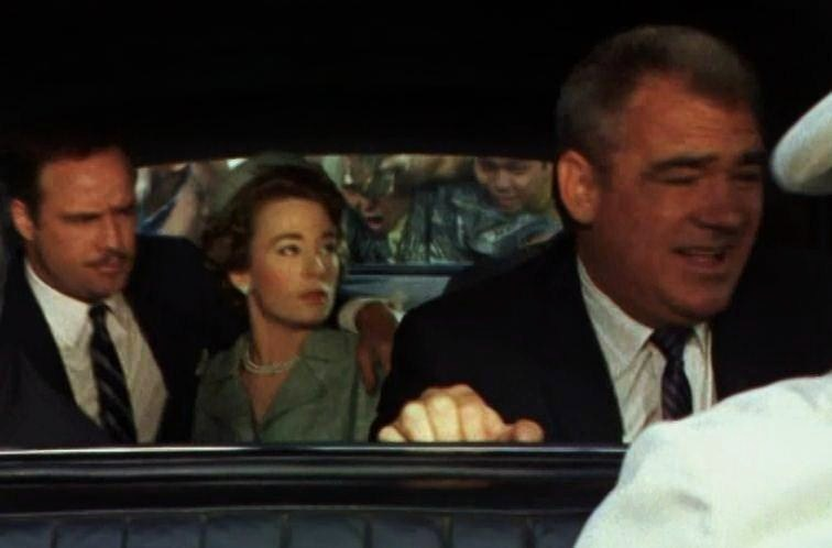 L. to R. : Marlon Brando, Sandra Church & Judson Pratt in The Ugly American - trailer (cropped screenshot)